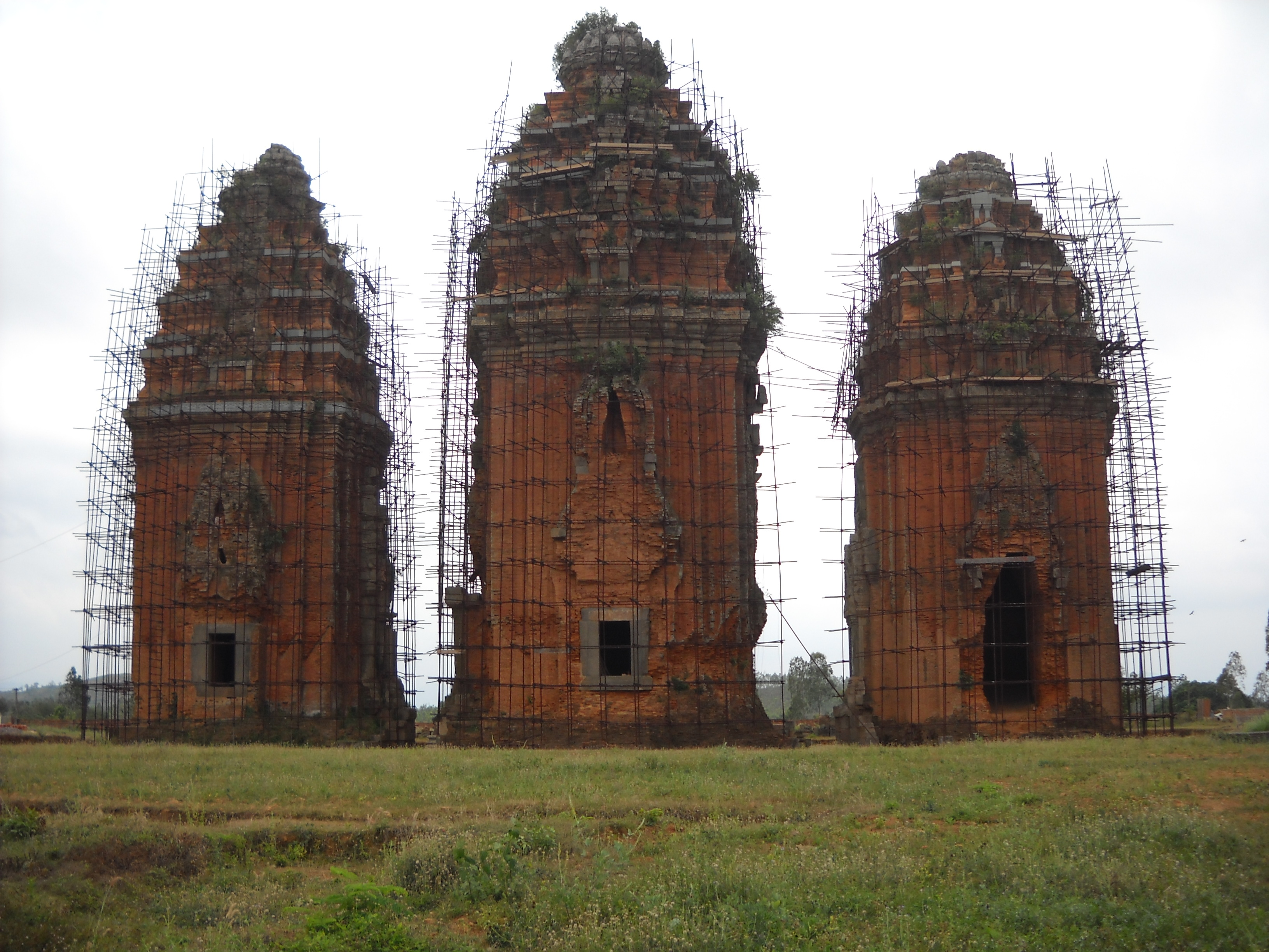 Cham tower Duong Long, Tay Son district, Binh Dinh province, Vietnam